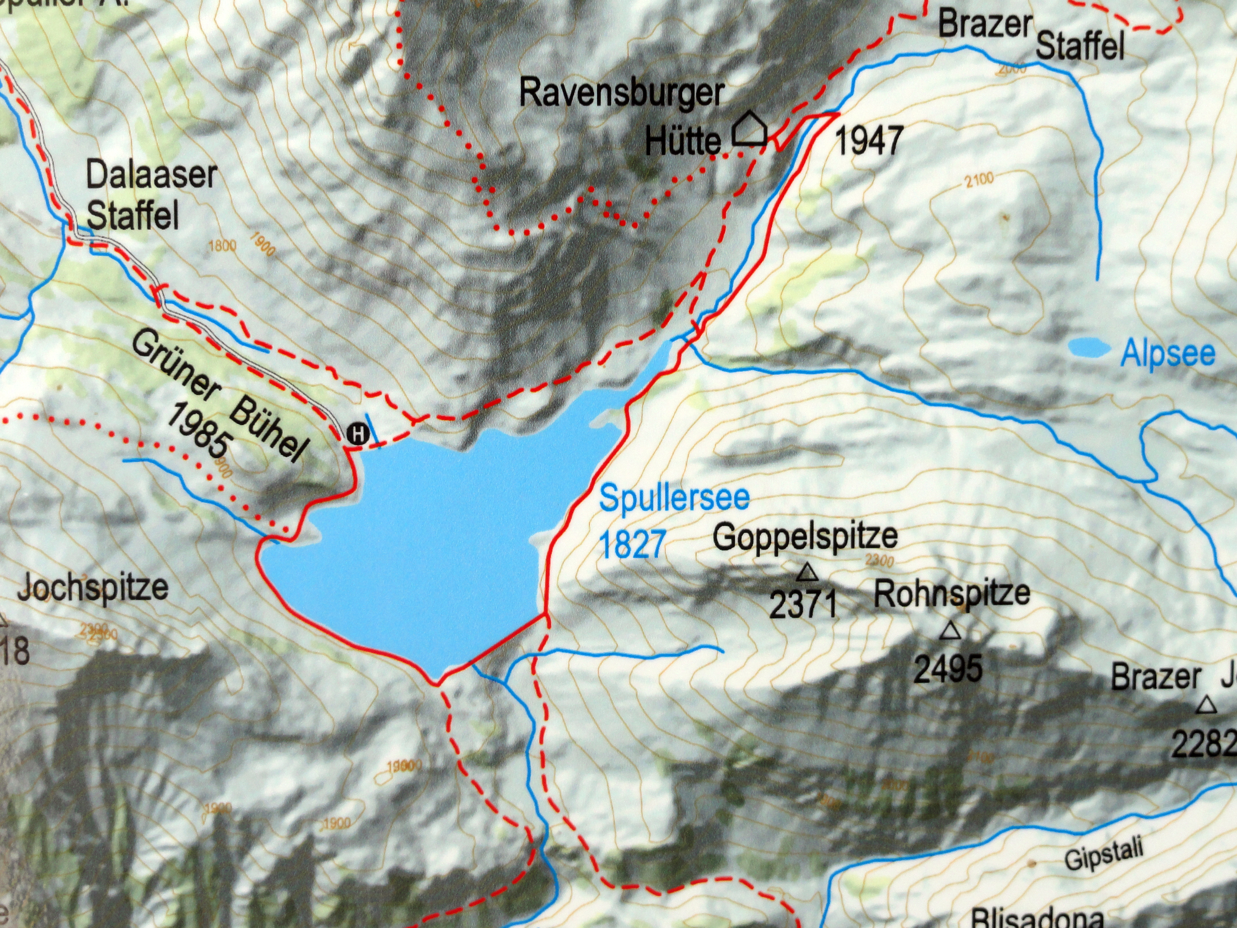 Spullersee/Lechquellengebirge. Von Infotafel beim Spullersee